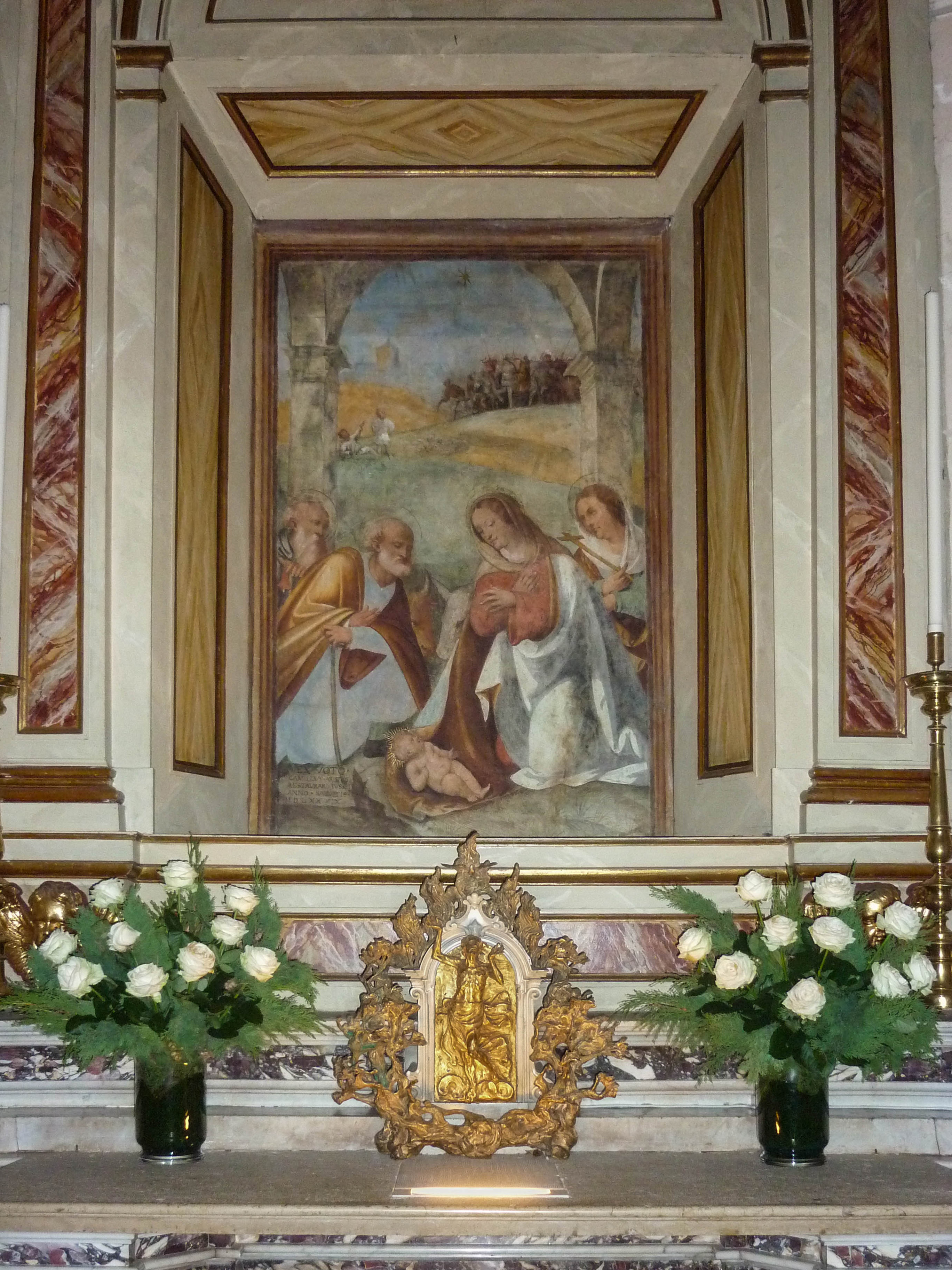 Madonnina del boschetto, aisle of Nativity of Jesus.